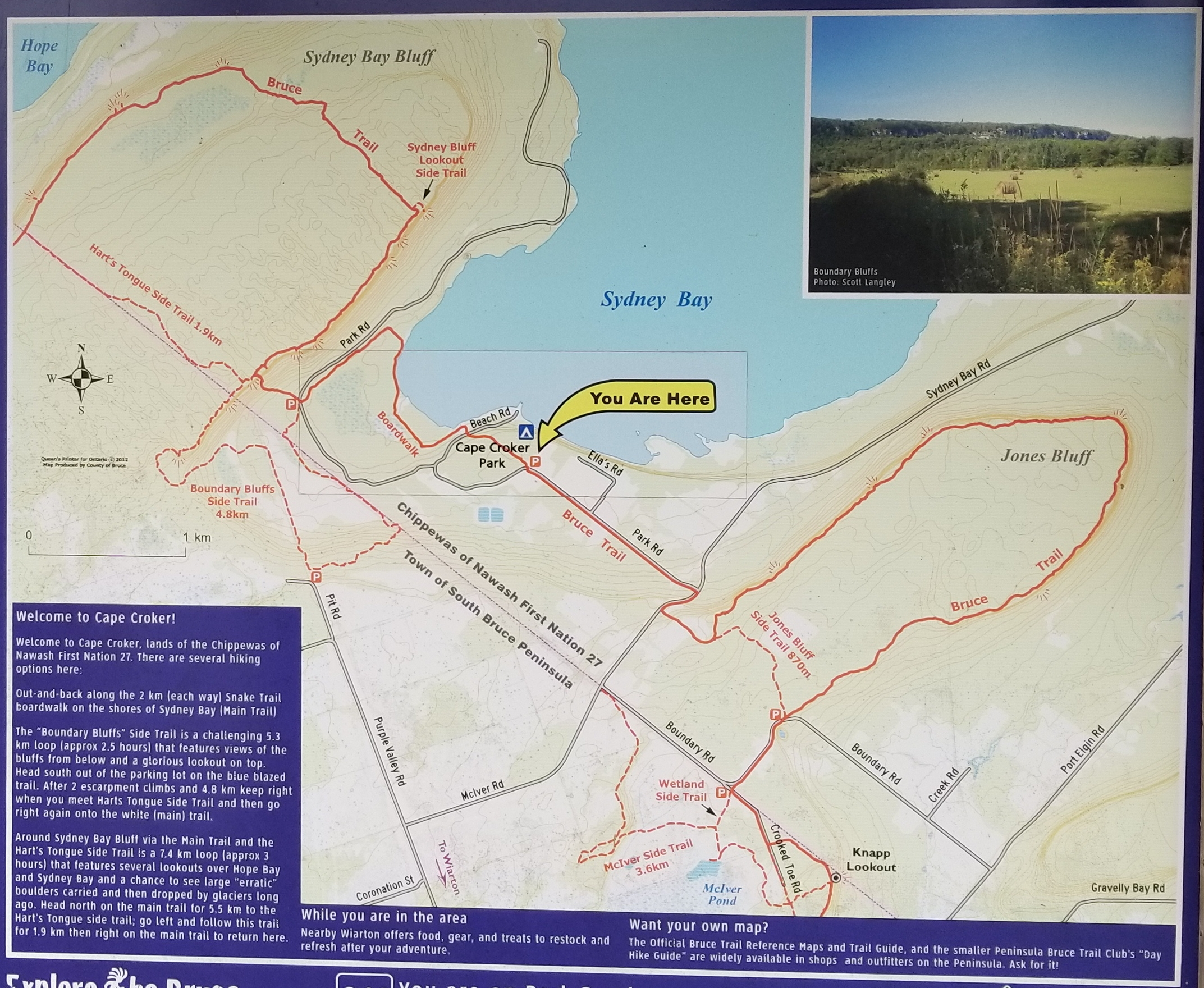 A picture of the map of the Bruce trail in Cape Croker